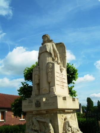 The monument aux morts of Marquéglise in the Oise region features four high-reliefs around the pedestal by Marcel Pierre de Bréel. These show various stages in the life and death of a soldier. At the top of the pedestal is an allegory of France topped by a helmet bound by laurel. "France" holds a crown of laurel in each hand. The work was executed in 1924.